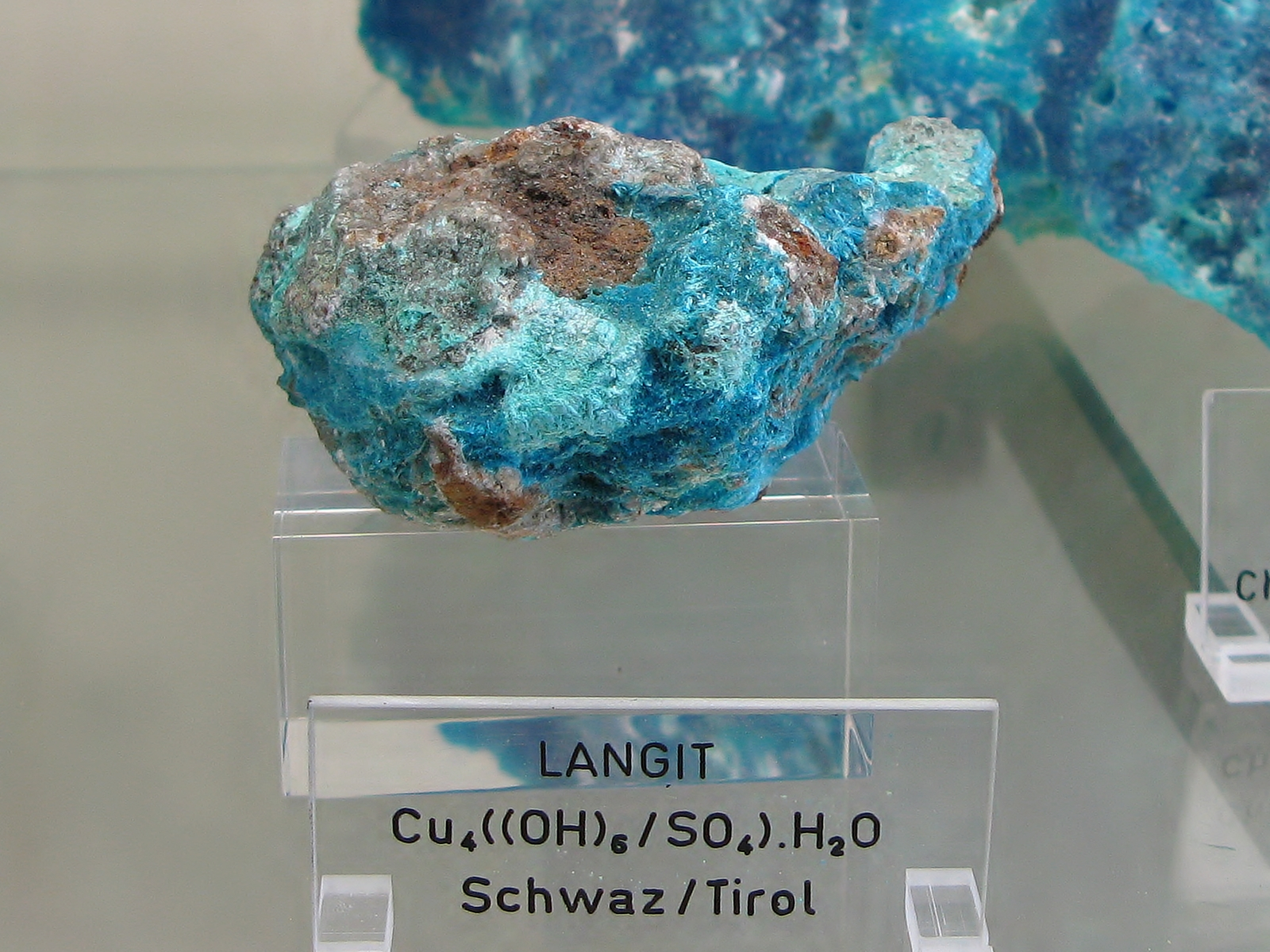 Langite - Locality: Schwaz, Tirol - Exposed in the Mineralogical Museum, Bonn, Germany